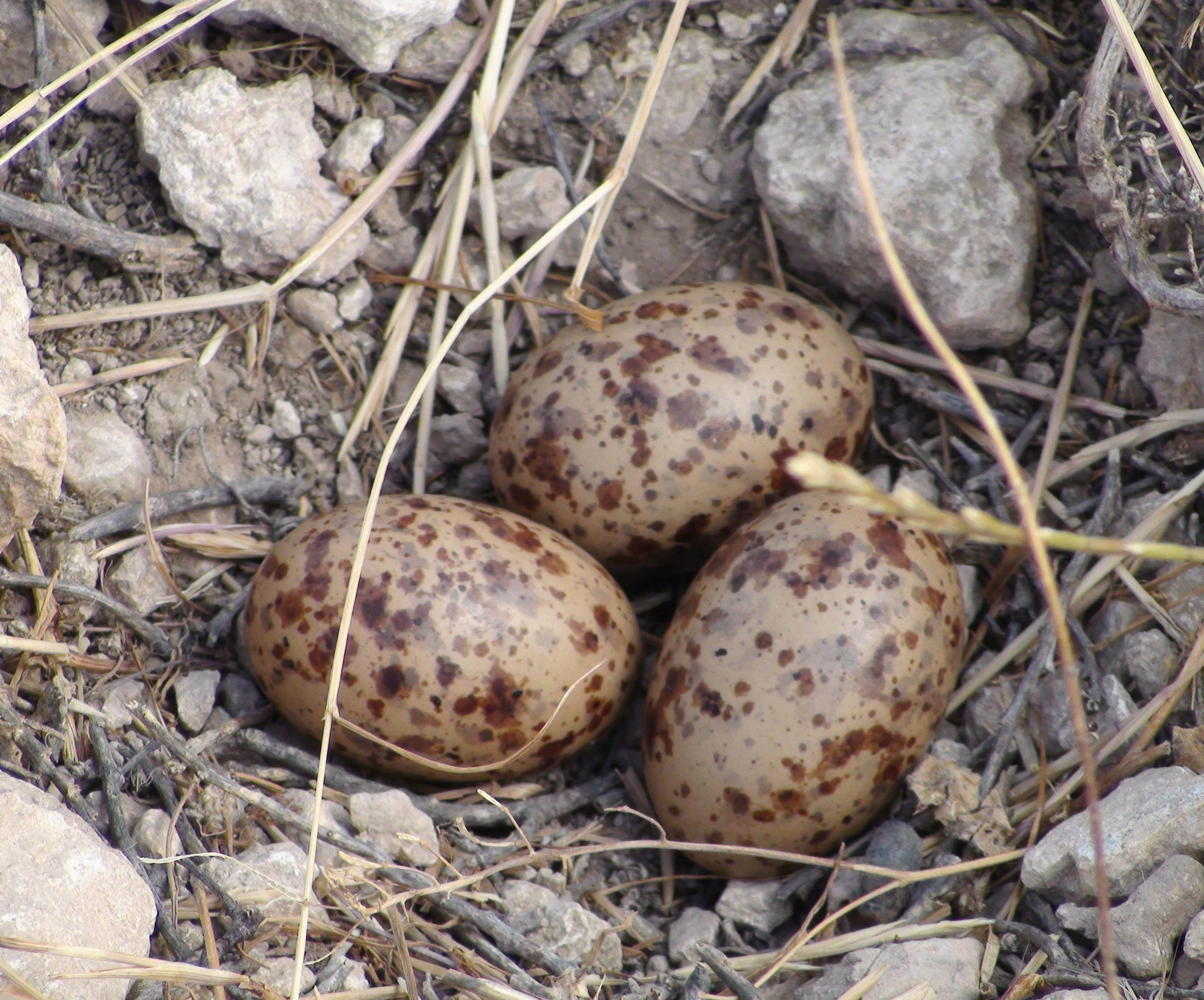 Nest of Pin-tailed Sandgrouse Pterocles alchata, with 3 eggs. FOund on drylands near Fraga, northeast Spain.